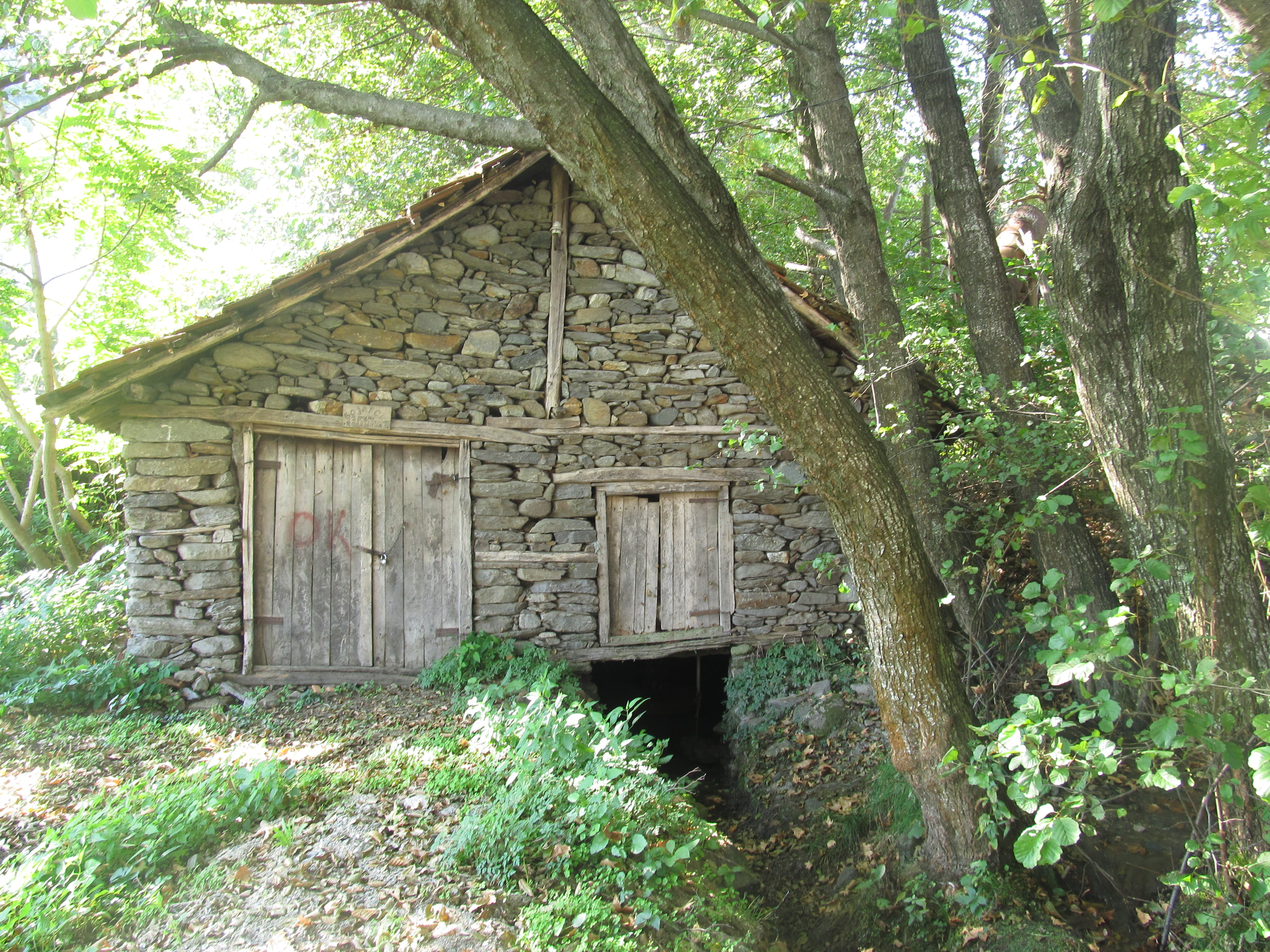 Old mill in Smolari, Macedonia